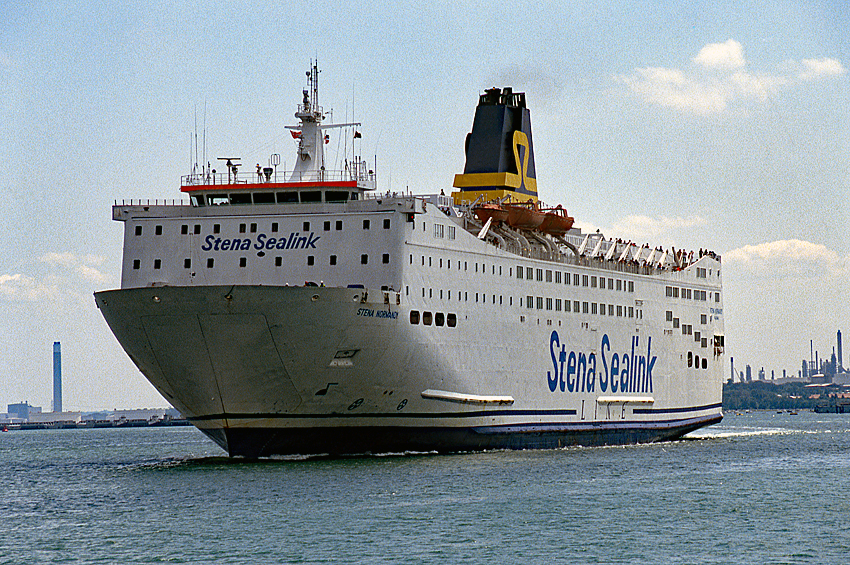 Stena Normandy entering the River Itchen, Southampton, on arrival from Normandy. Other names: Prinsessan Birgitta, St Nicholas, Normandy. Information about Stena Normandy (ship) may be found at IMO 7901772.A ship can change name and flag state through time, but the IMO number remains the same through the hull's entire lifetime. As a result, it can be useful to identify a ship by using the IMO number. Scanned from a Fujichrome 35mm slide.